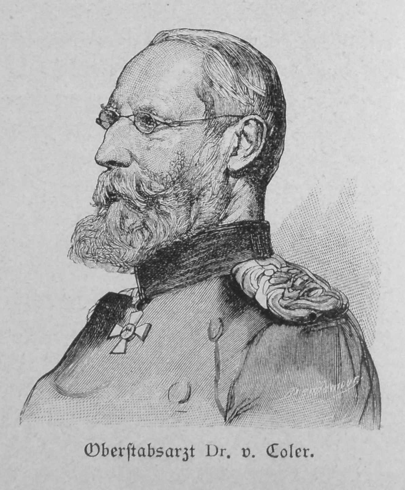 chief staff surgeon MD von Coler